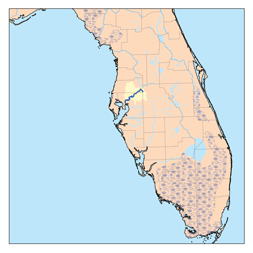 This is a map of the Hillsborough River watershed. I, Karl Musser, created it based on USGS data.